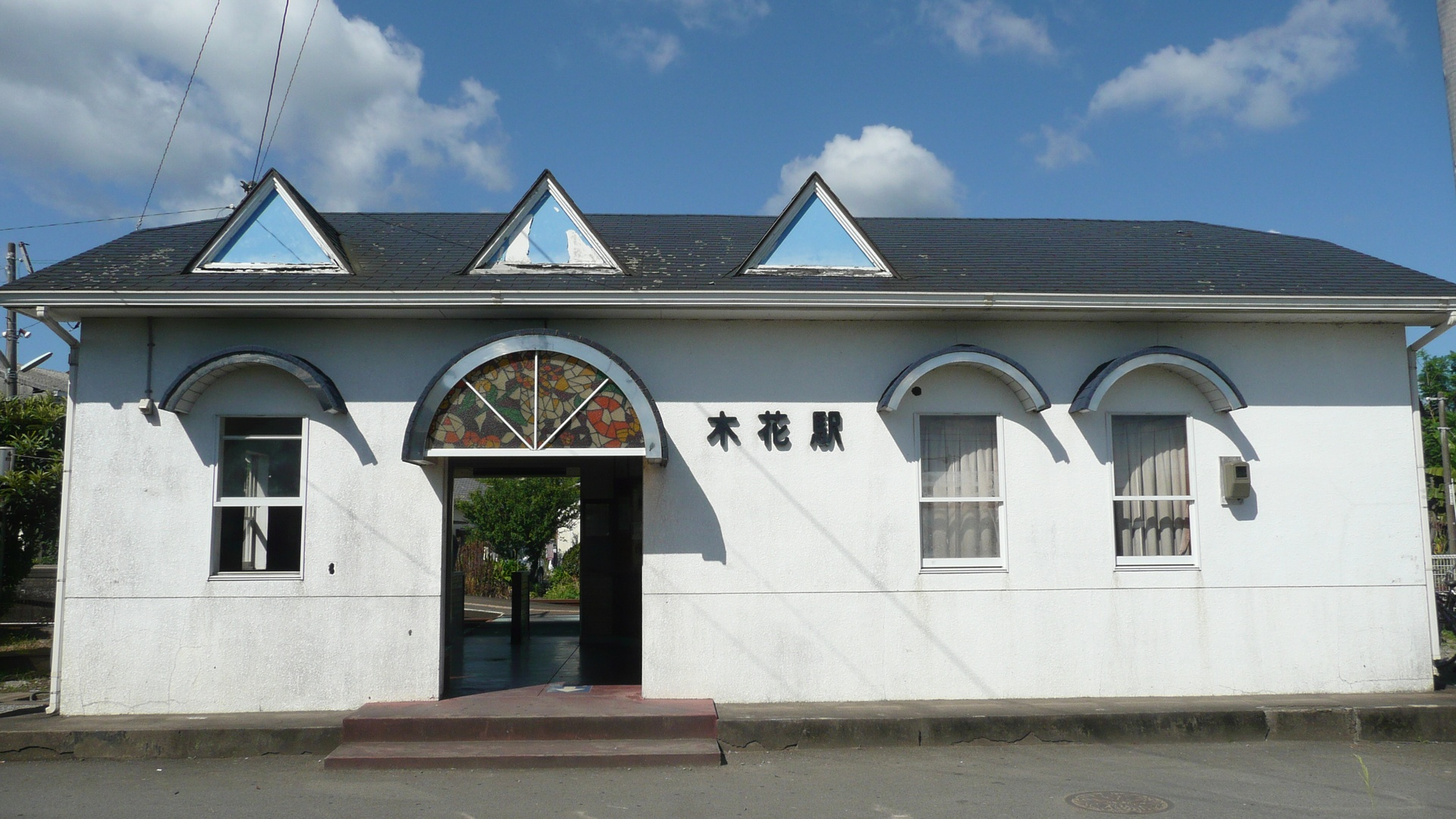 JR Kyushu Nichinan Line - Kibana Station (Miyazaki City, Japan)